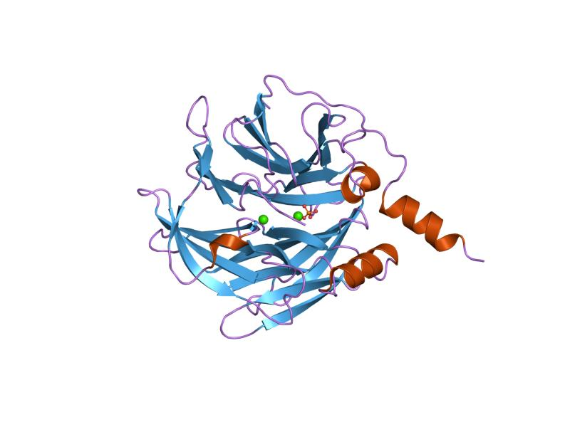 Cartoon representation of the molecular structure of protein registered with 1v04 code.